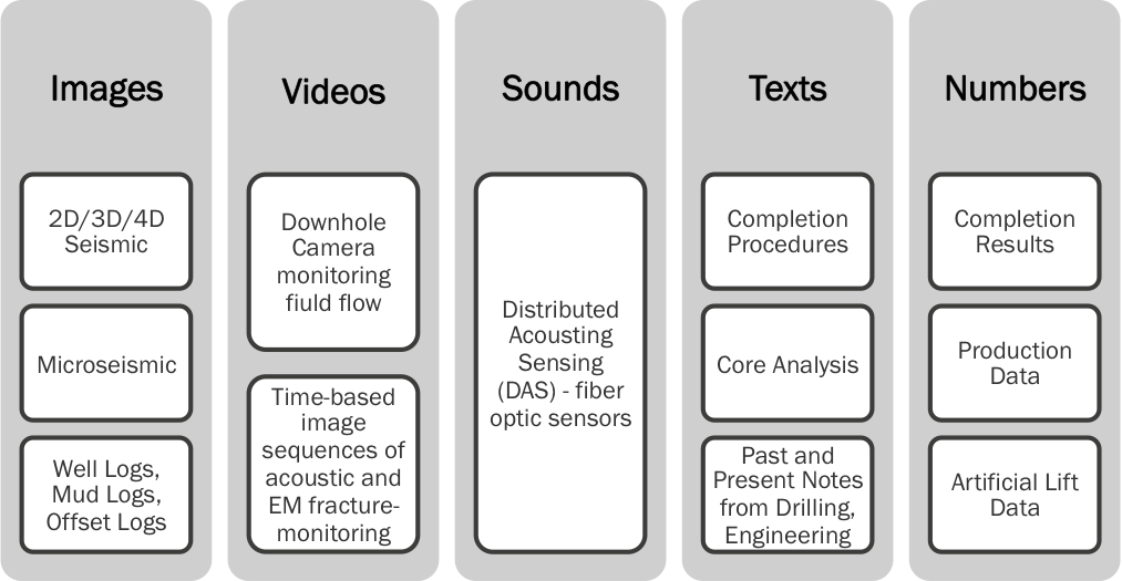 Various data sets generated and captured by the oil and gas production ecosystem that are able to be analyzed by Prescriptive Analytics software